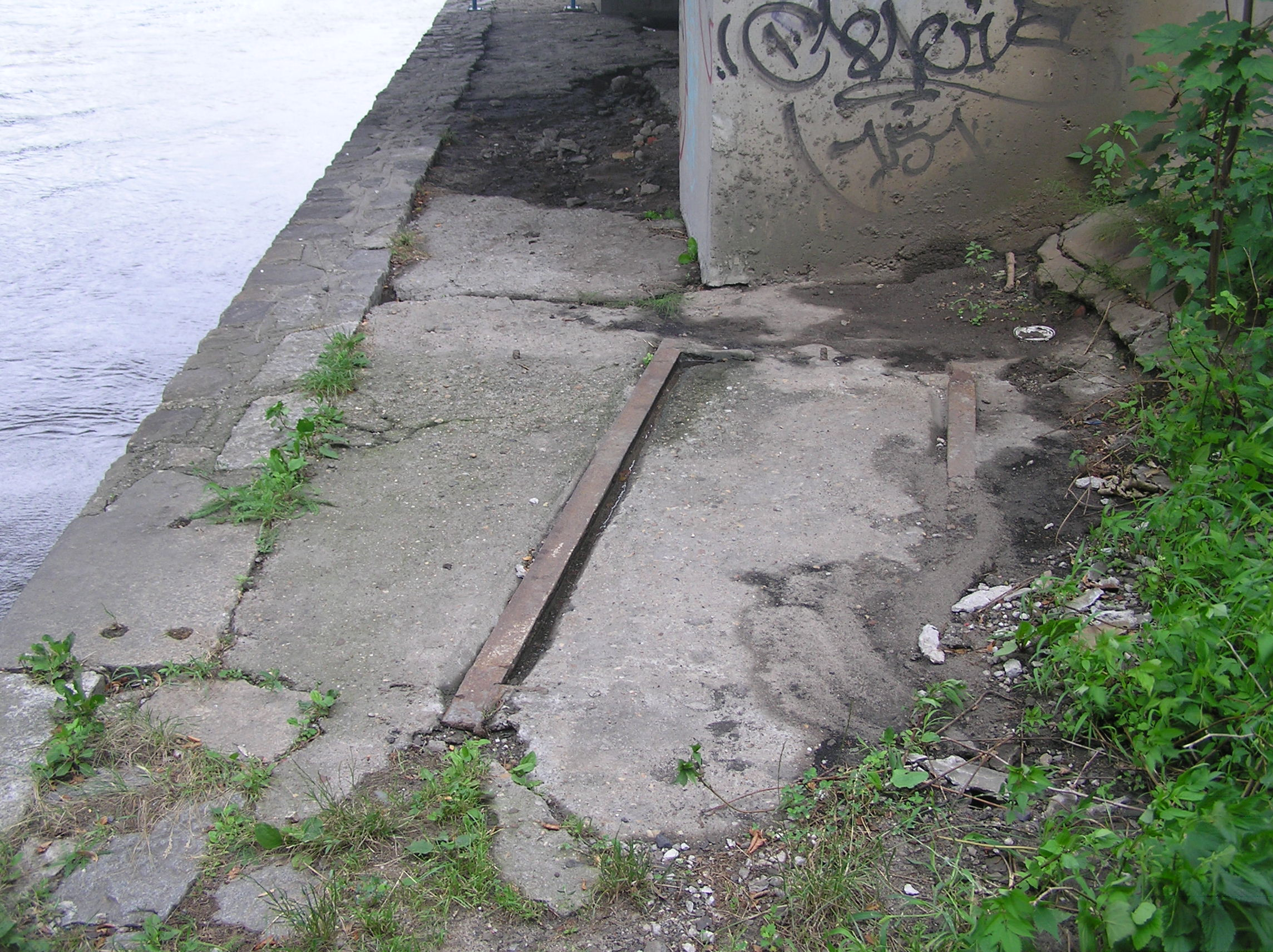 Wrocław, Zacisze Weir, residual track